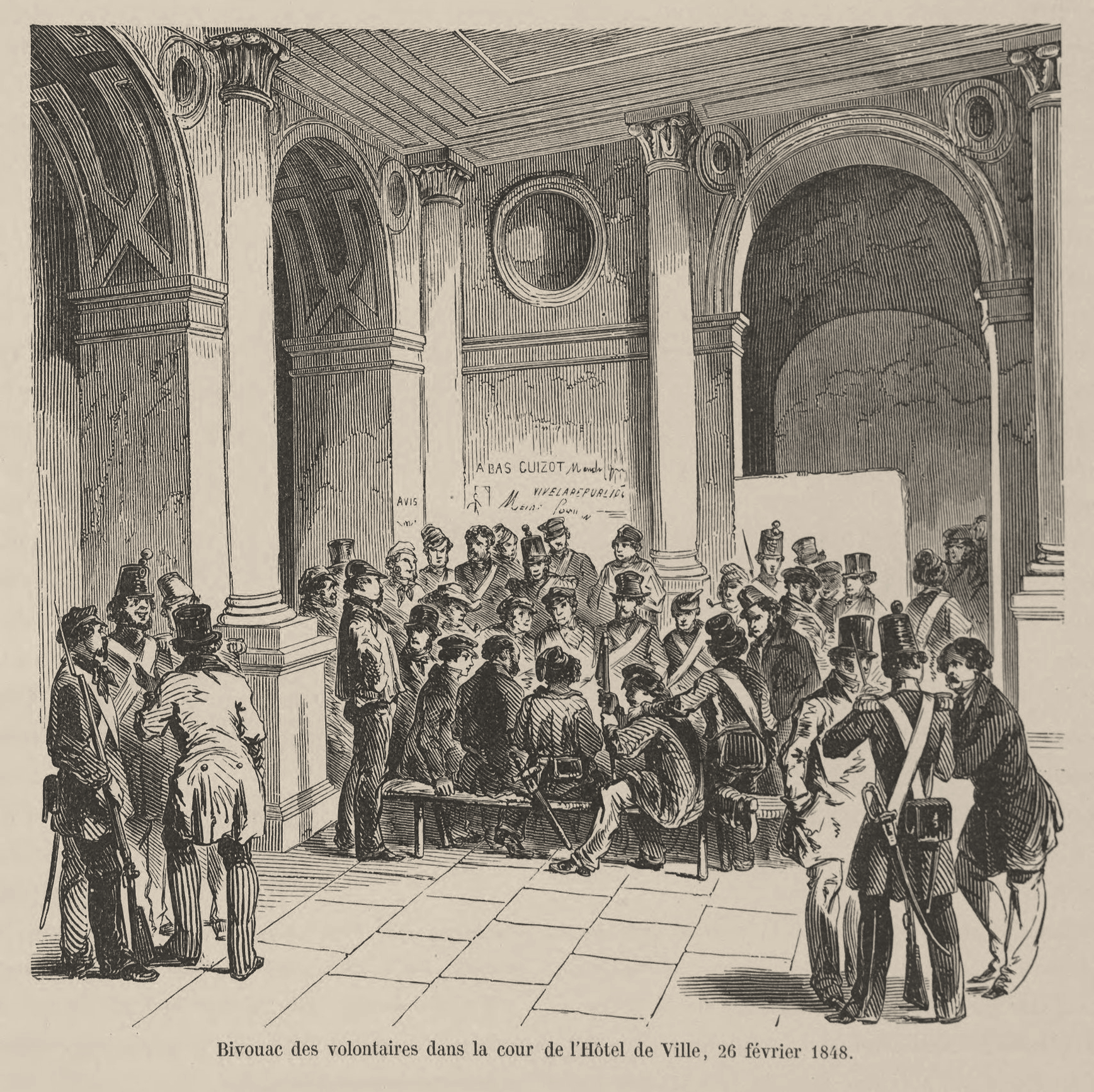 A group of revolutionaries during the February Revolution of 1848 gather in one of the Hôtel de Ville's meeting halls. The Hôtel served as the site of their provisional government throughout the short-lived revolution.